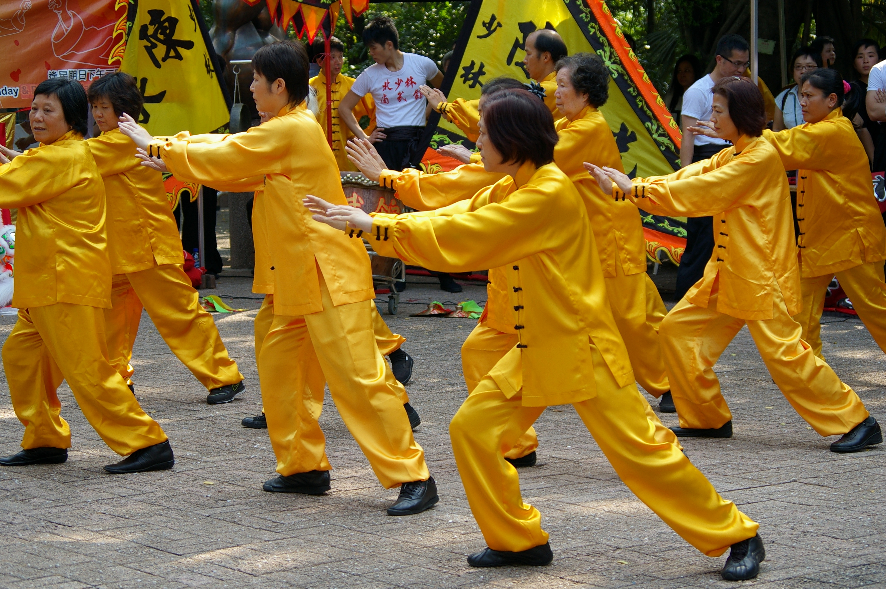 Tai chi show on Kung Fu Corner in Kowloon Park, Hong Kong